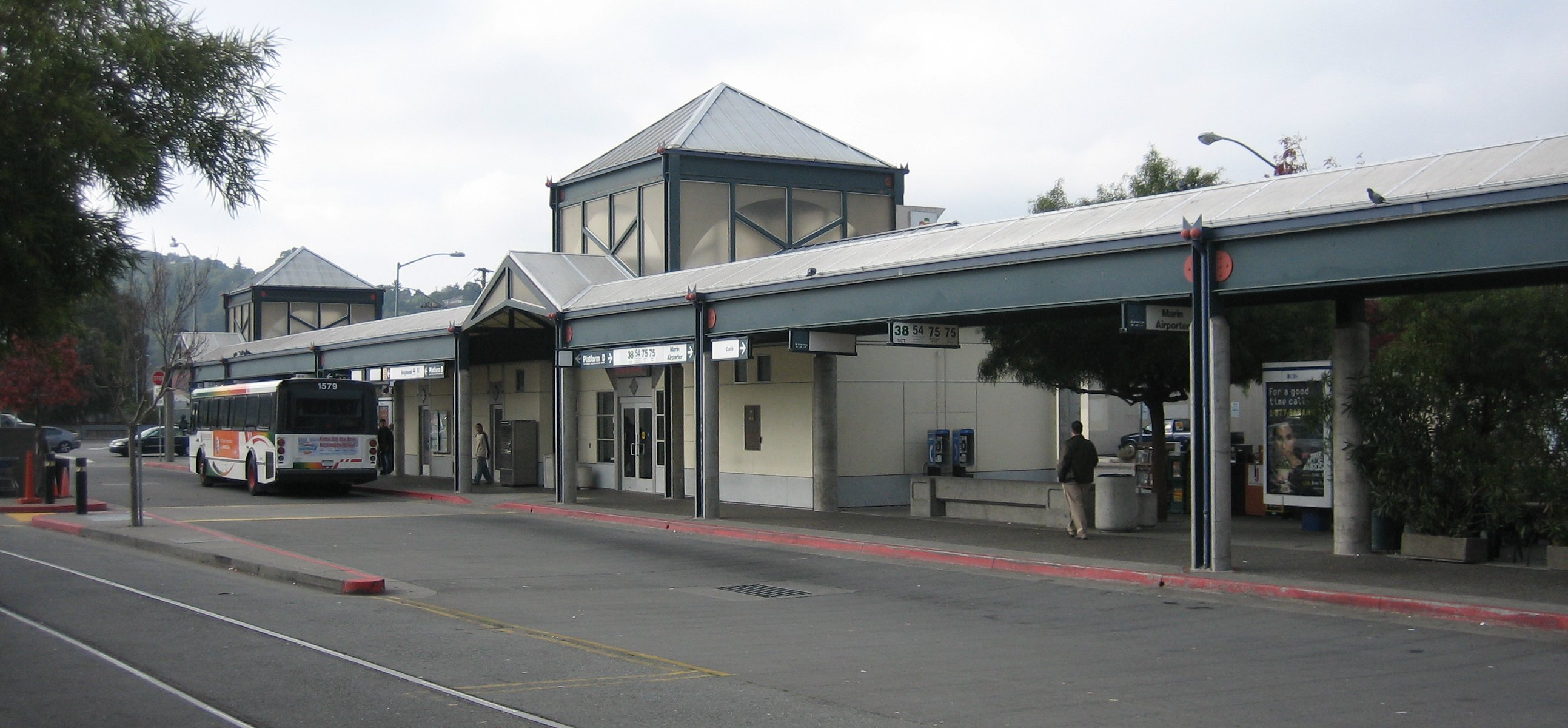 Photograph of San Rafael Transit Center